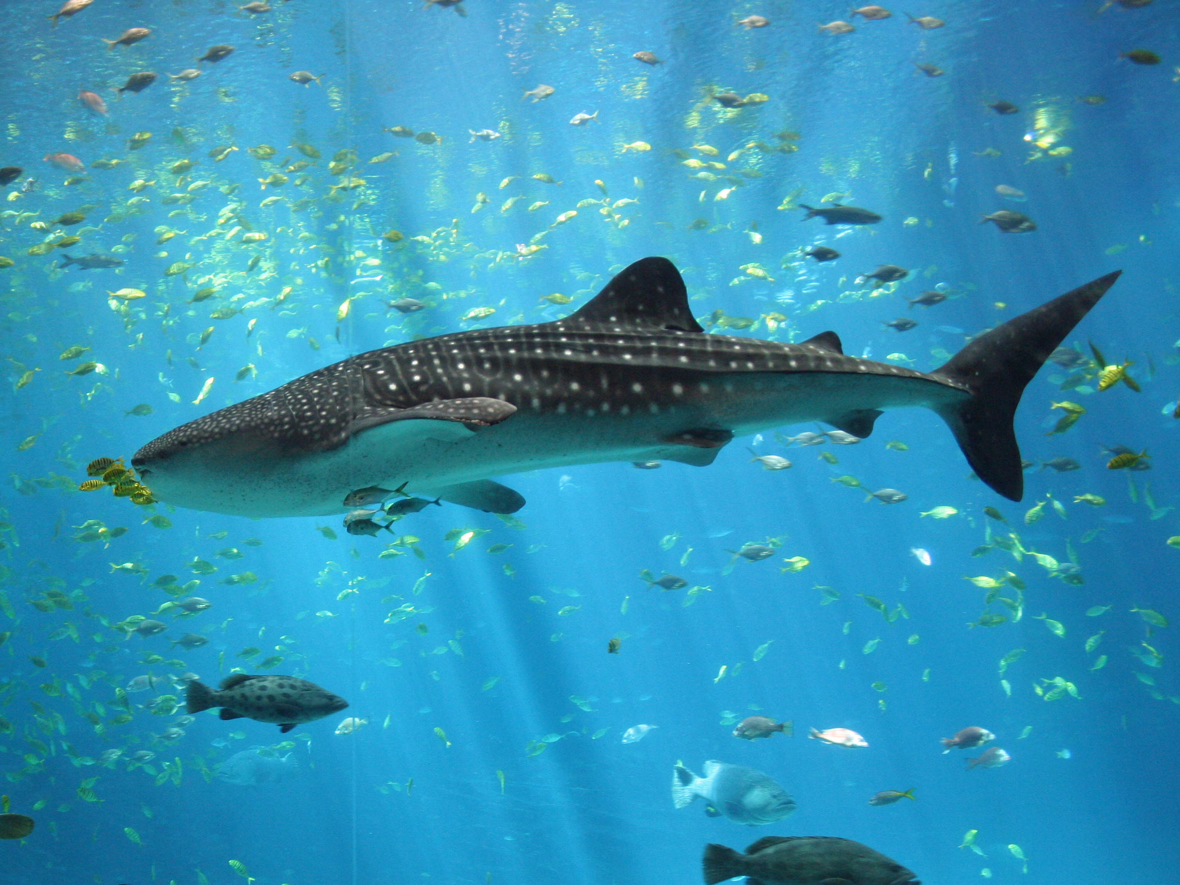 Picture taken at Georgia Aquarium, pictured is one of the two resident male whale sharks